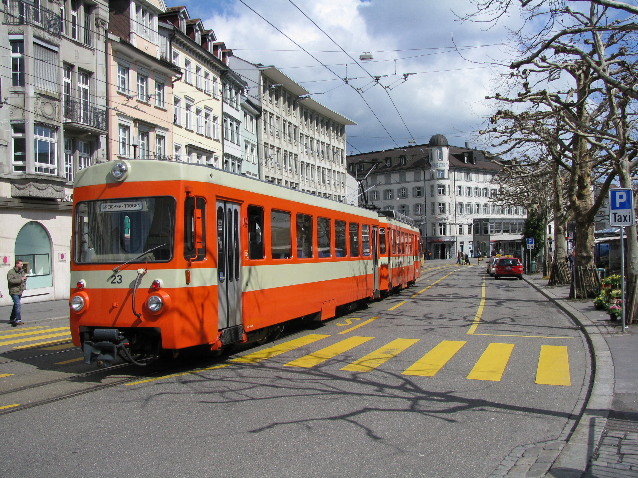 BDe 4/8 23 (FFA/BBC 1975) of the Trogenerbahn at the Market Place in St. Gallen